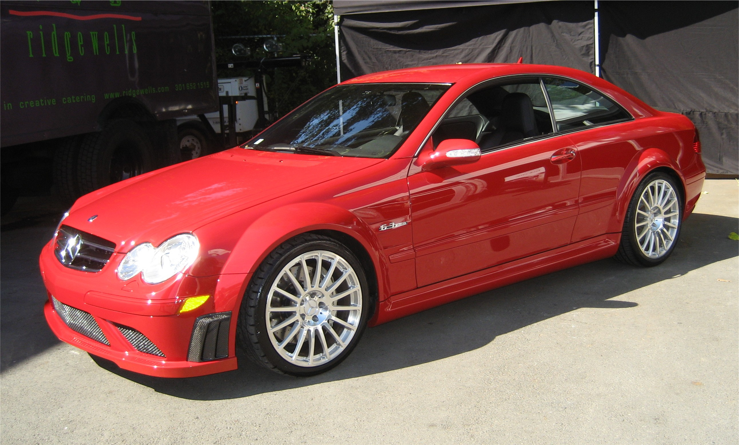 2009 Mercedes-Benz CLK63 AMG Black Series in Bethesda, Maryland